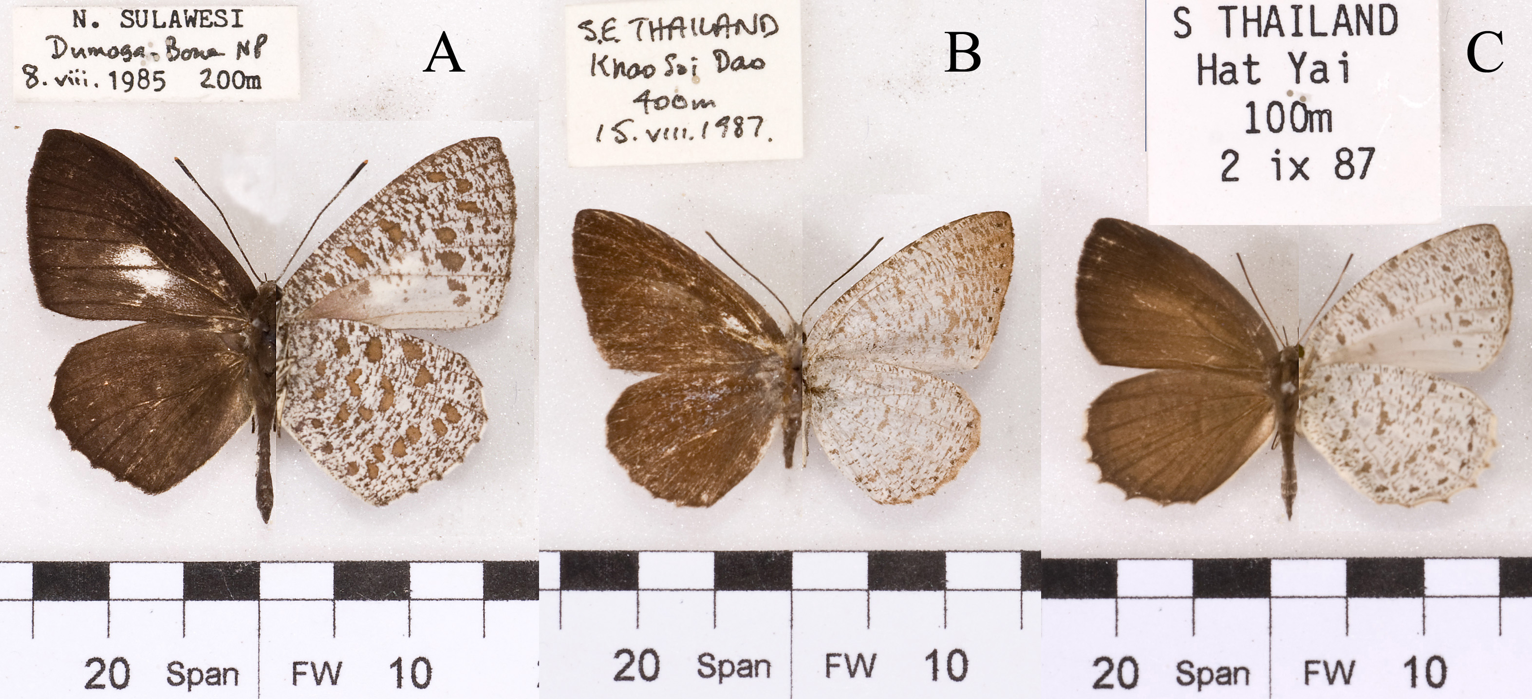 Showing one species from each Sub-Genus of Allotinus: Allotinus (Allotinus) major, male, North Sulawesi; Allotinus (Fabitaras) taras, male, Thailand; Allotinus (Paragerydus) leogoron, female, Thailand. Alan Cassidy photo.